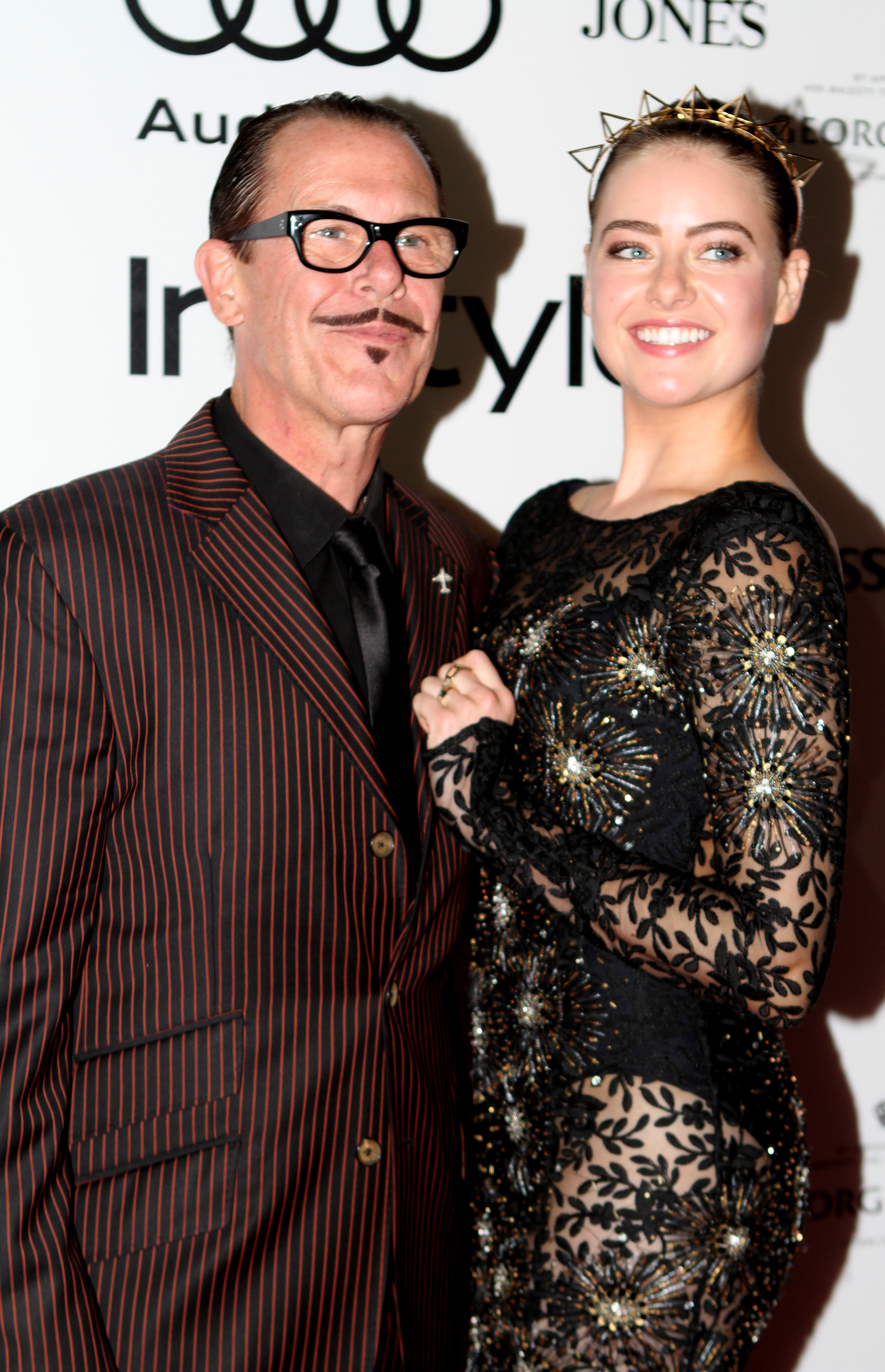 Instyle Awards 2015 InStyle and Audi Host Seventh Annual Woman Of Style Awards Red Carpet Gala Event